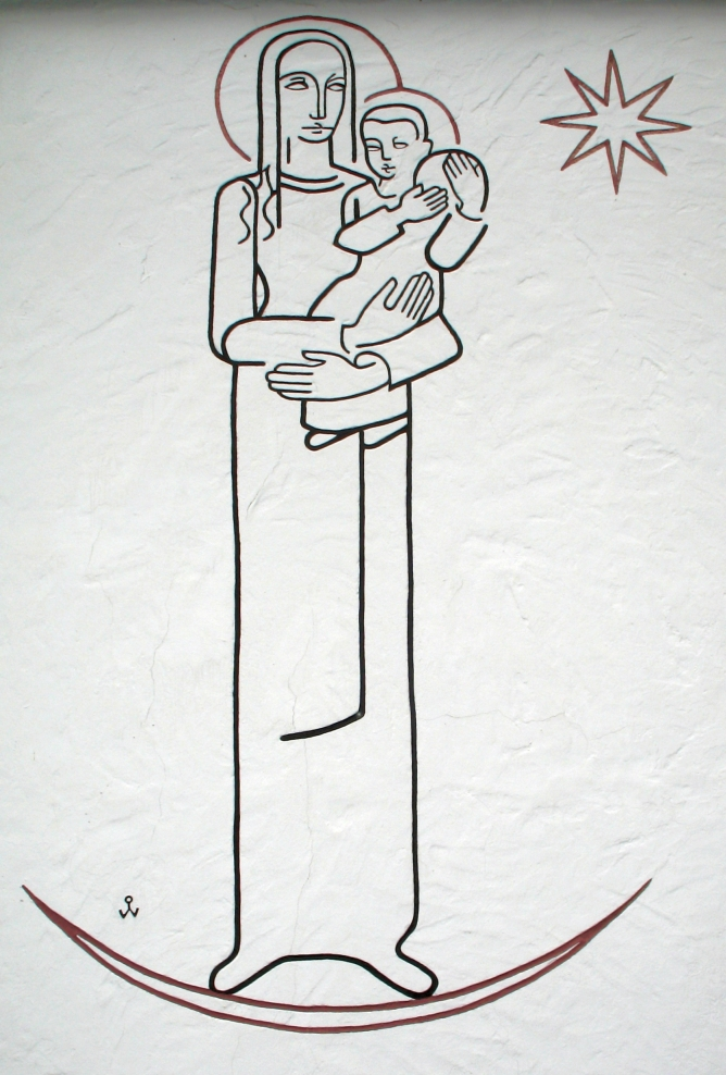 Sgraffito of Saint Mary with the child Jesus, by Wolfram Plotzke OP (d. 1954) at the facade of an old villa in Kreuzweingarten, Germany